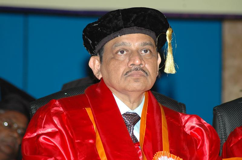 Own work